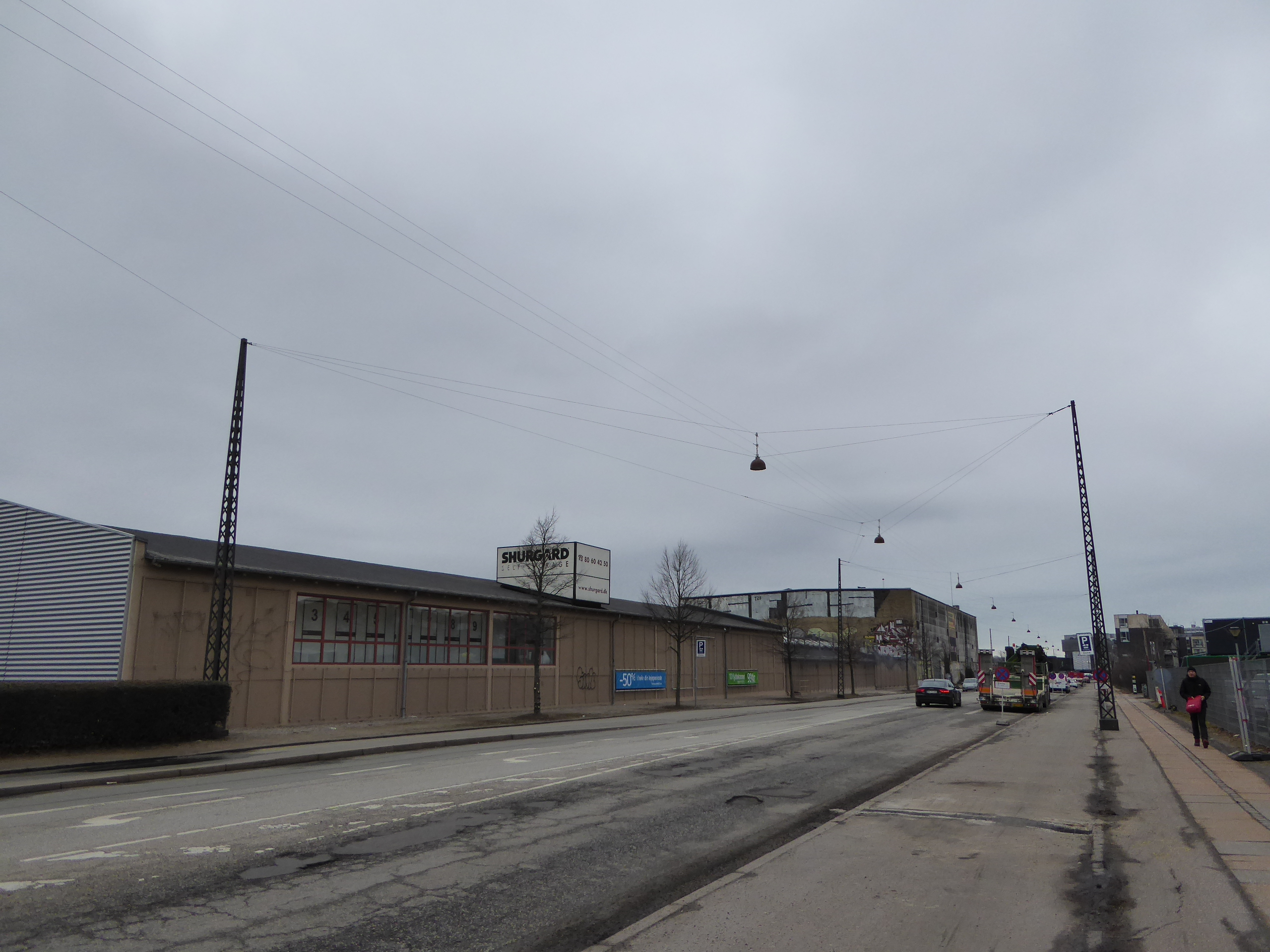 Storehouses at the street Rovsingsgade in Østerbro in Copenhagen.